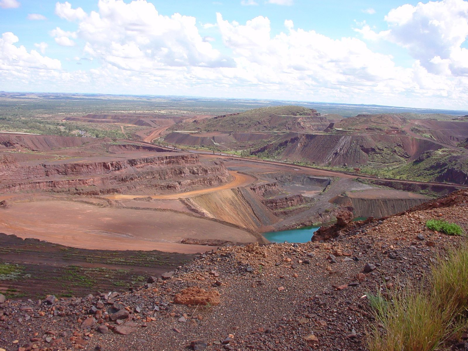 Image title: Mining operations paraburdoo mine Image from Public domain images website